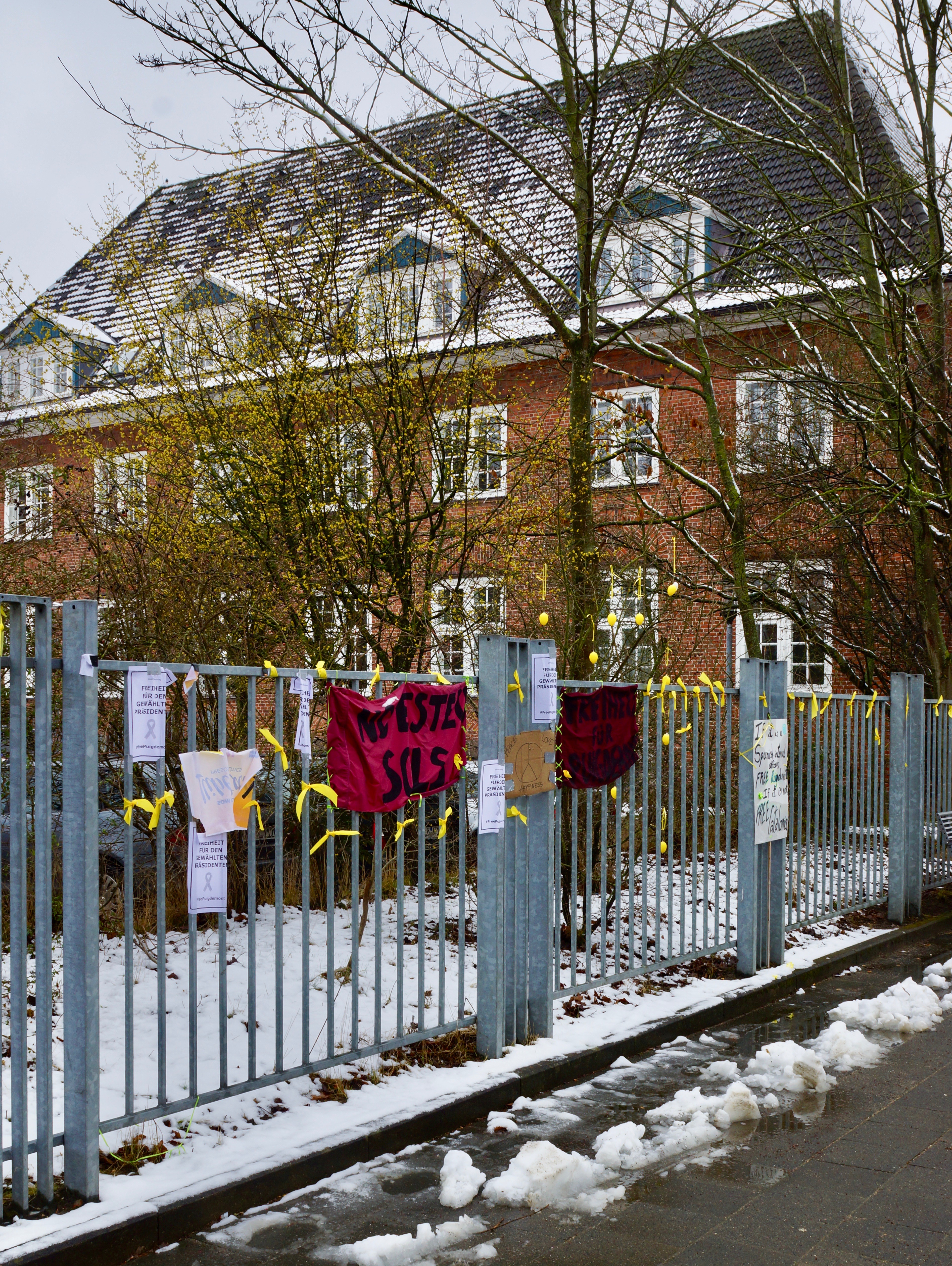 Neumünster, Germany: Prison with protest against Carles Puigdemont's arrest